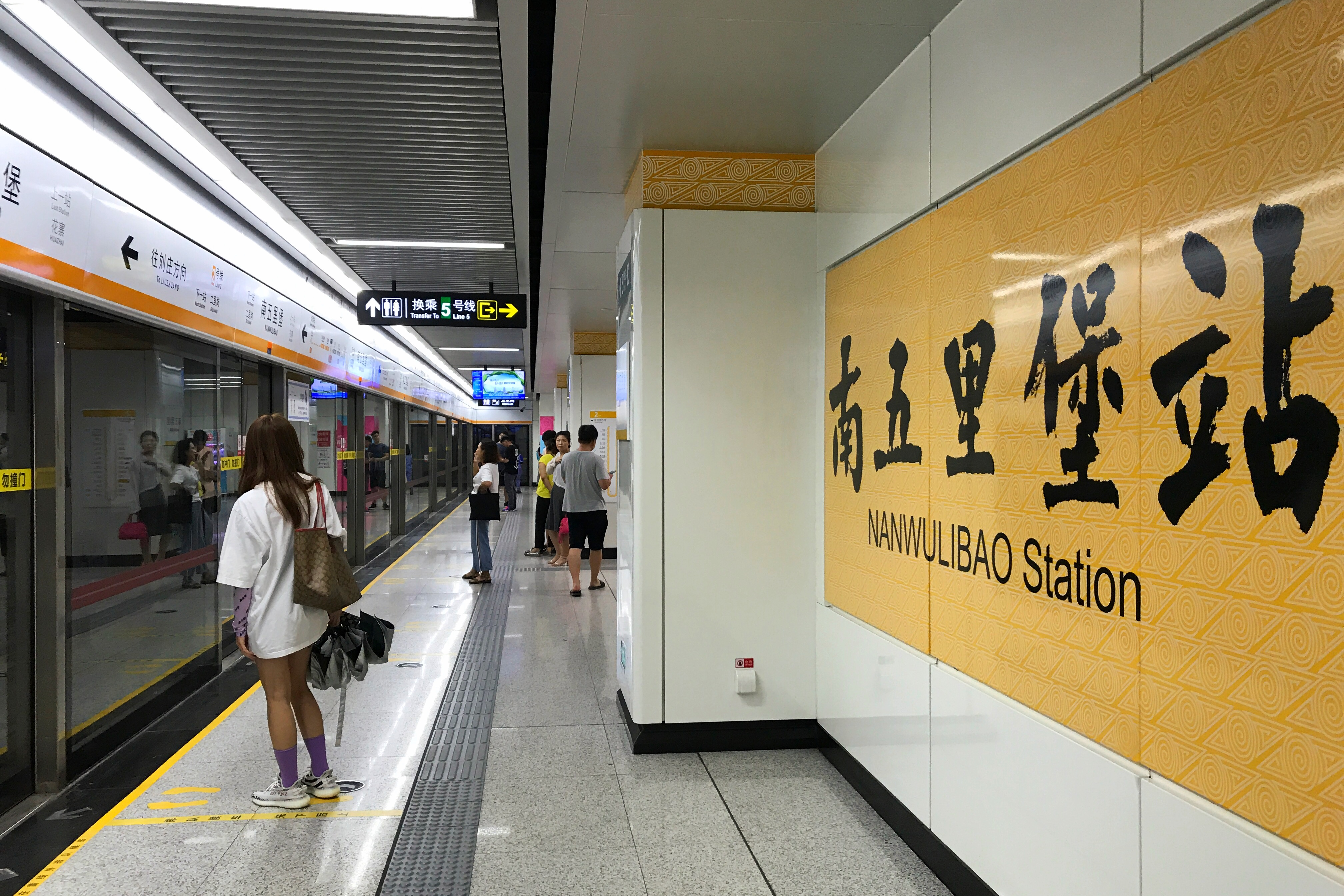 Platform for Line 2 at Nanwulibao Station